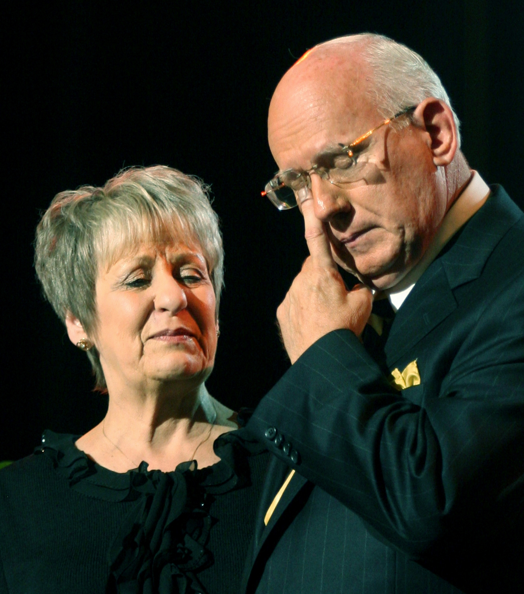 Thomas E. Trask, and his wife Shirley Trask, show emotion after listening to a tribute of their over 40 years of service to the Assembly of God denomination, durning the General Council meeting at the Conseco Auditorium, in Indianapolis, Ind., on Wednesday August 8, 2007. Trask has been the General Superintendant, of the world wide denomination, and had recently submited his letter of resignation, and was about to give a final address to over 18,000 that had gathered. Ministers attending the meeting will be voting for his replacement on Thurday August 9, 2007. (PHOTO/Paul M. Walsh)